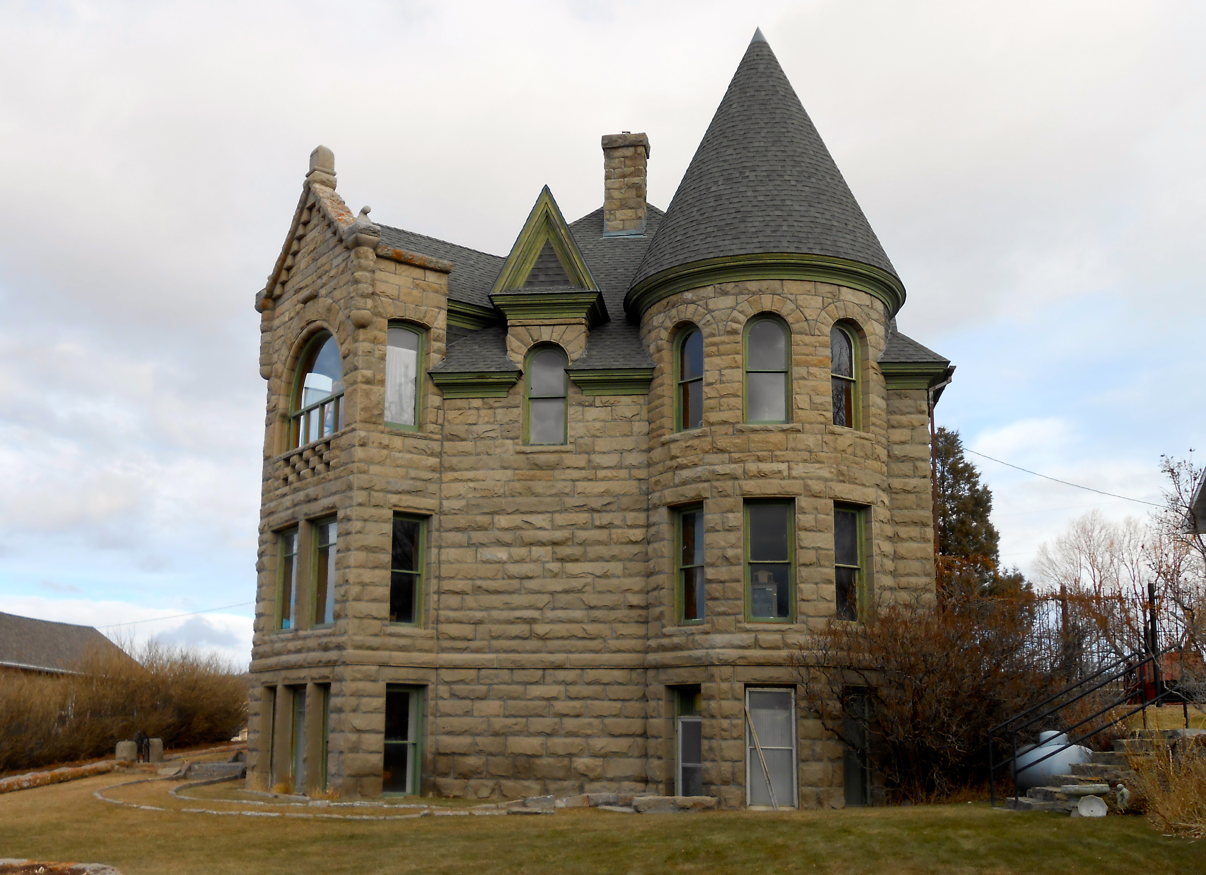 The Byron R. Sherman House, also known as "the Castle (of White Suplhur Springs), 310 2nd Ave., NE , White Sulphur Springs, MT NRHP Reference # 77000820